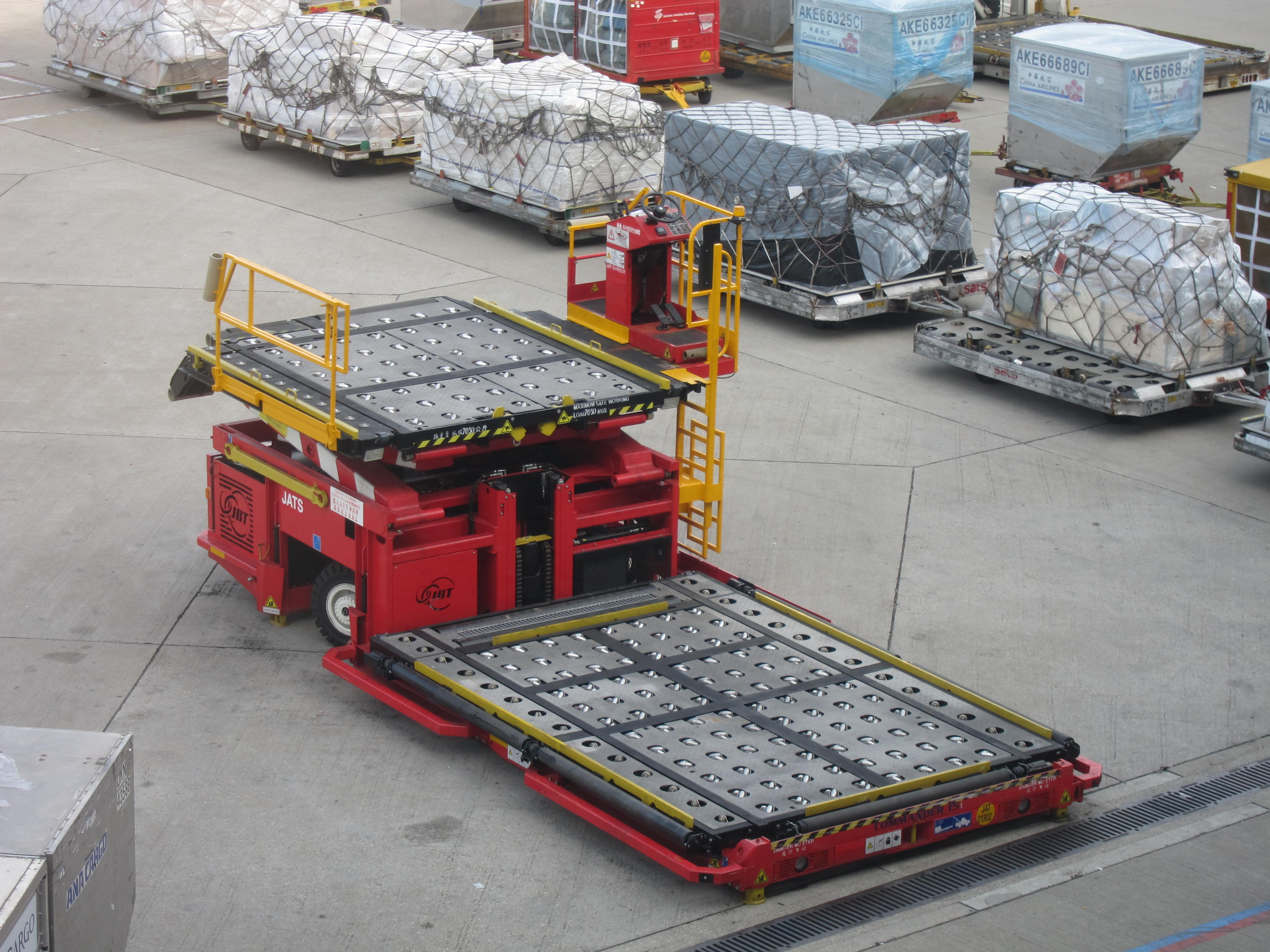 Photo of aircraft container and pallet loader showing its numerous powered rollers for shifting and rotation of containers. Taken in Hong Kong International Airport.